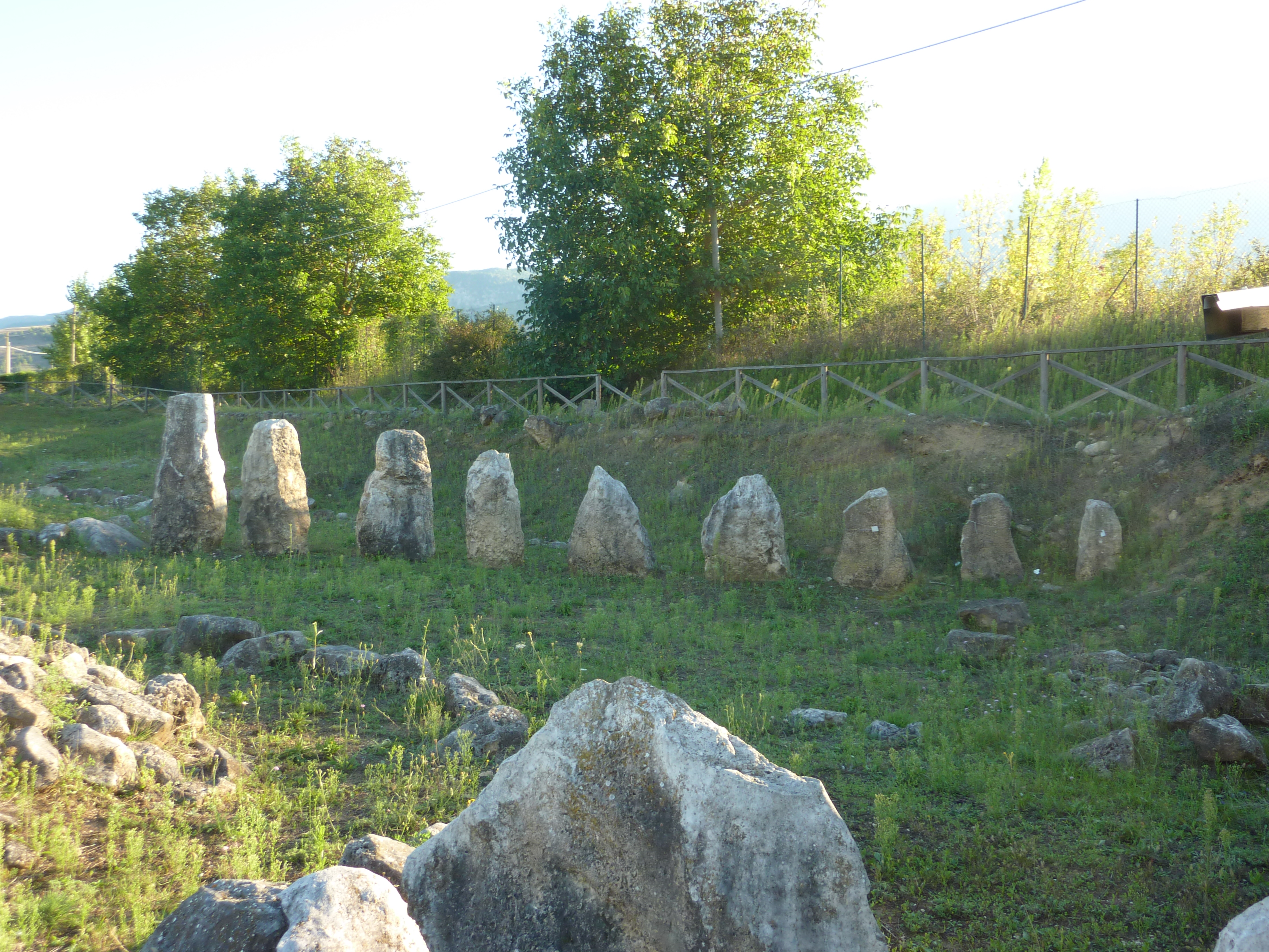 Fossa (AQ): Necropoli